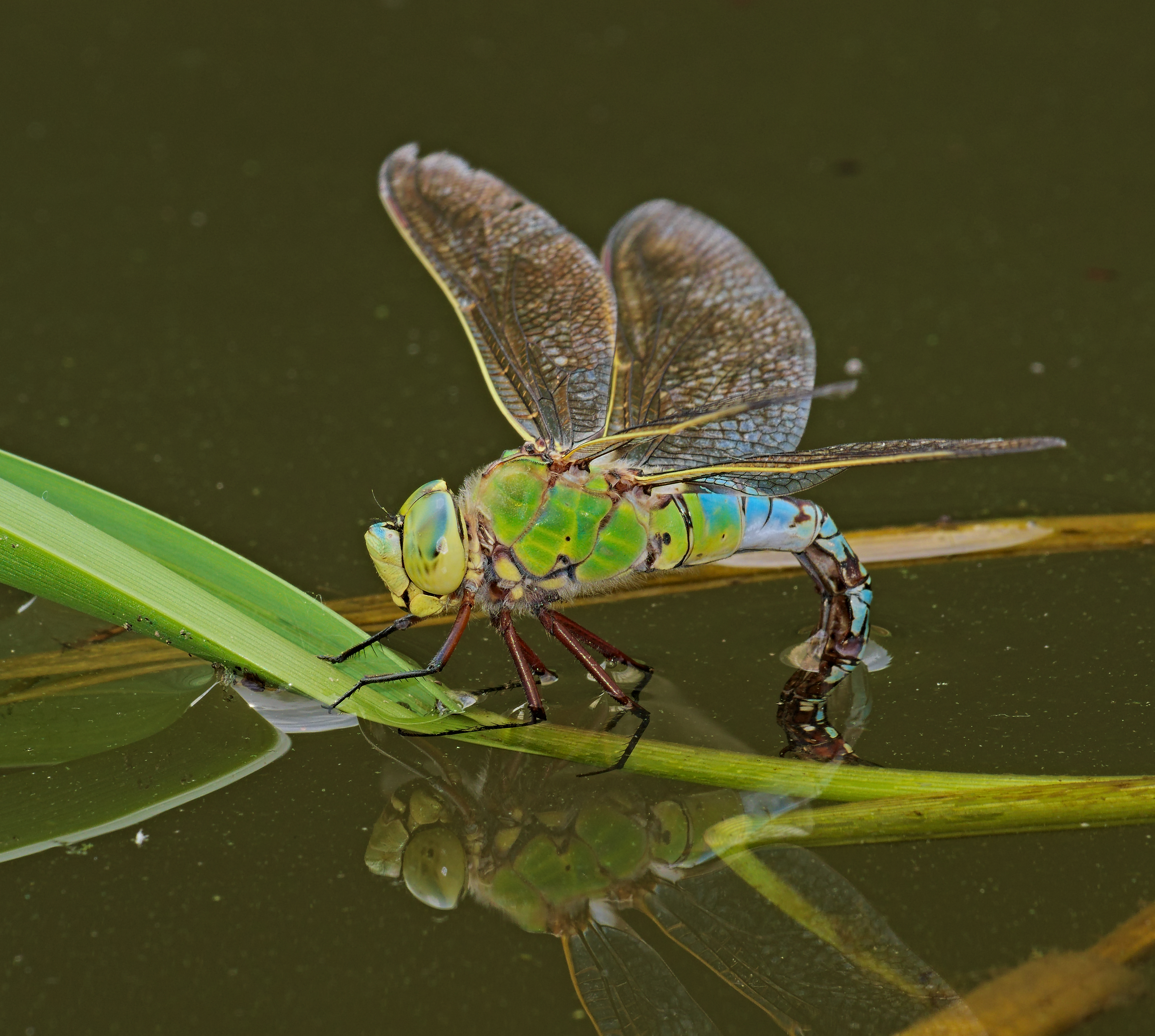 Emperor dragonfly - Anax imperator, female laying eggs. Taken by the fishing ponds in Rimbach, Hesse, Germany.